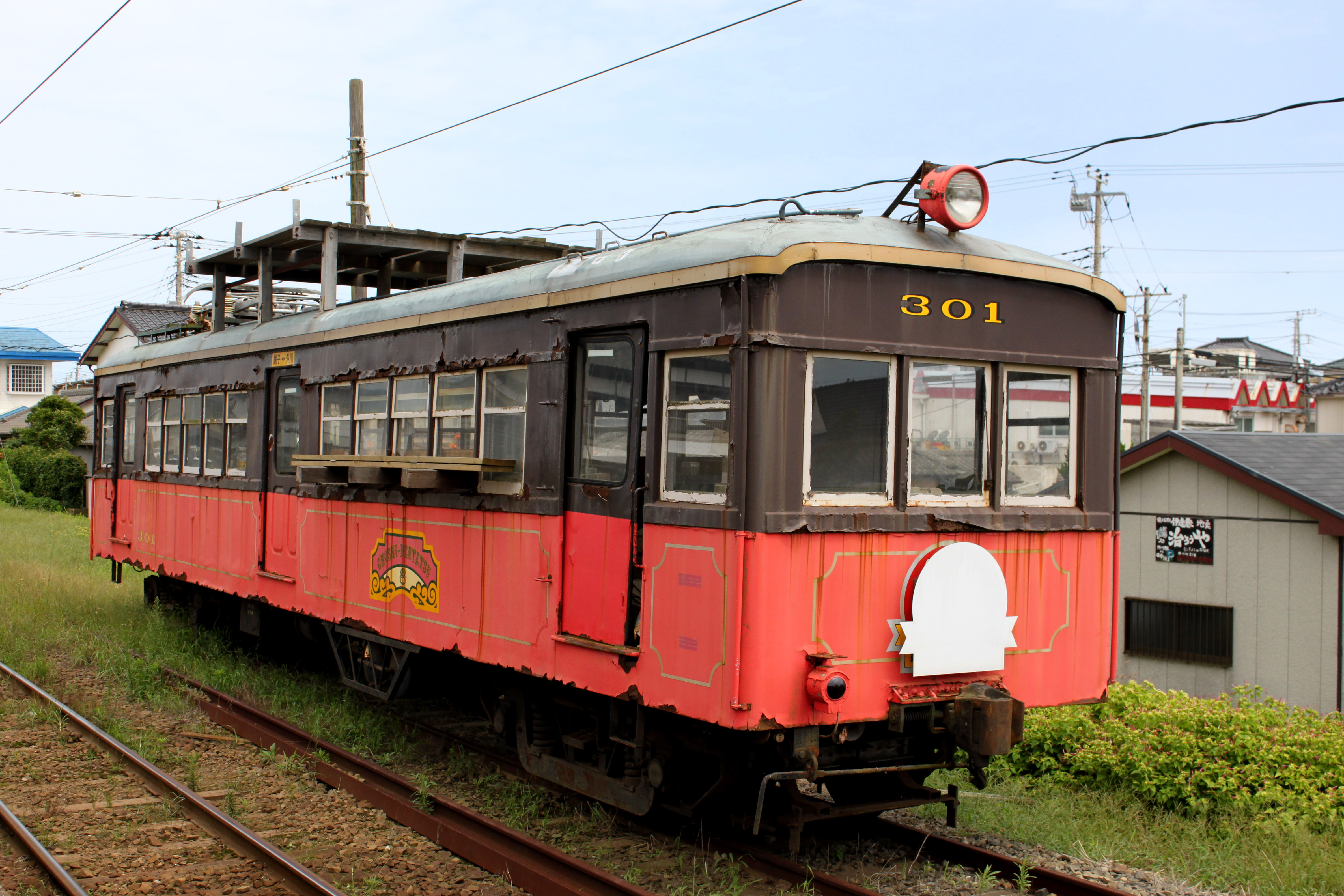 Withdrawn Choshi Electric Railway EMU car DeHa 301 stored at Tokawa Station. Note the work platform added to the roof after withdrawal from revenue service for use in maintaining overhead line equipment.